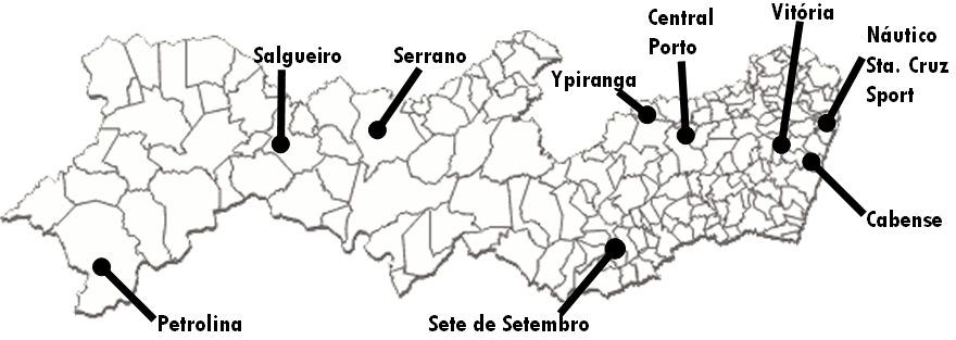 Map showing the cities who have teams playing the 2009 Campeonato Pernambucano